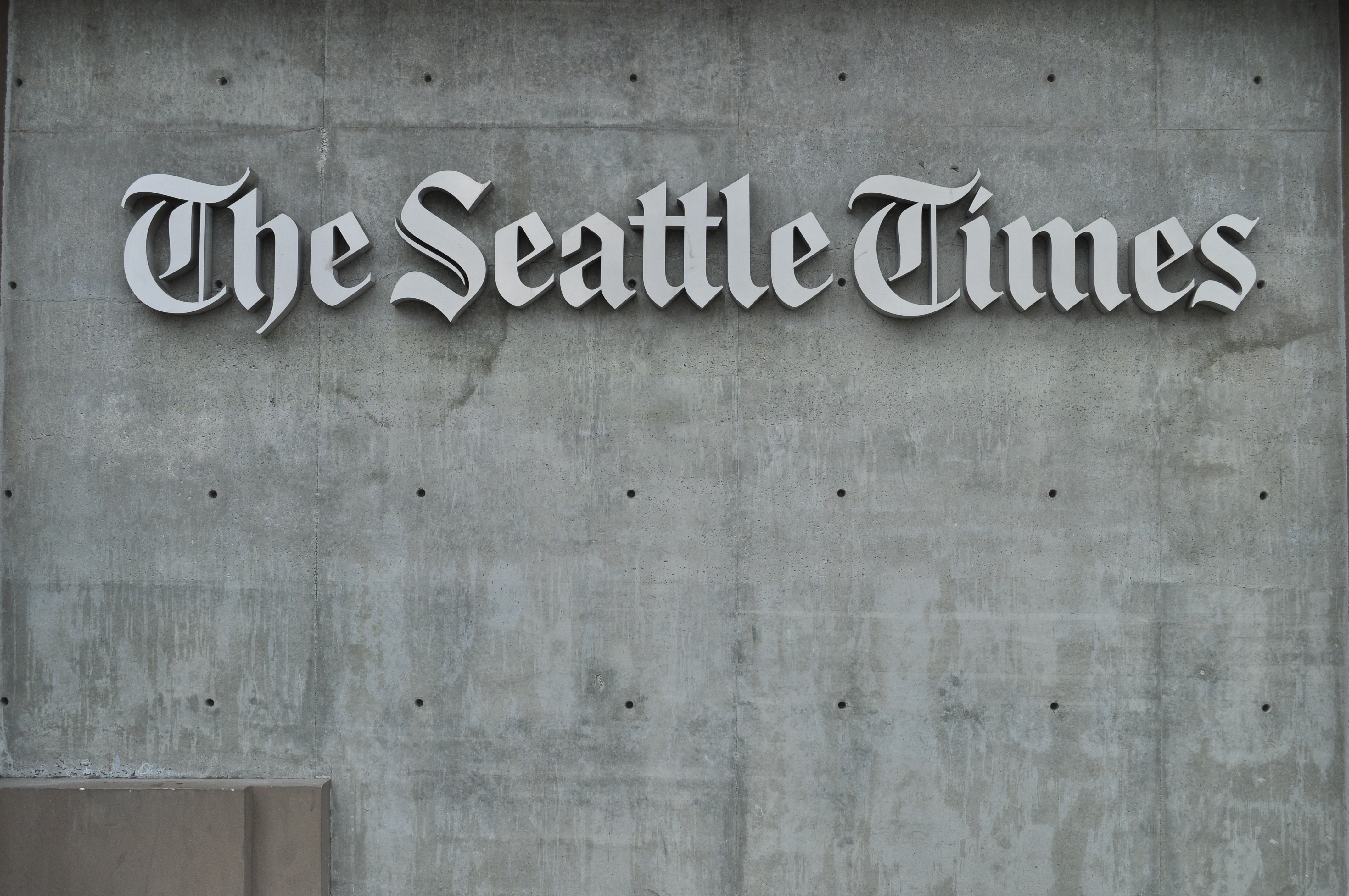 Seattle Times sign on Boren Ave side of 1000 Denny Way, South Lake Union, Seattle, Washington